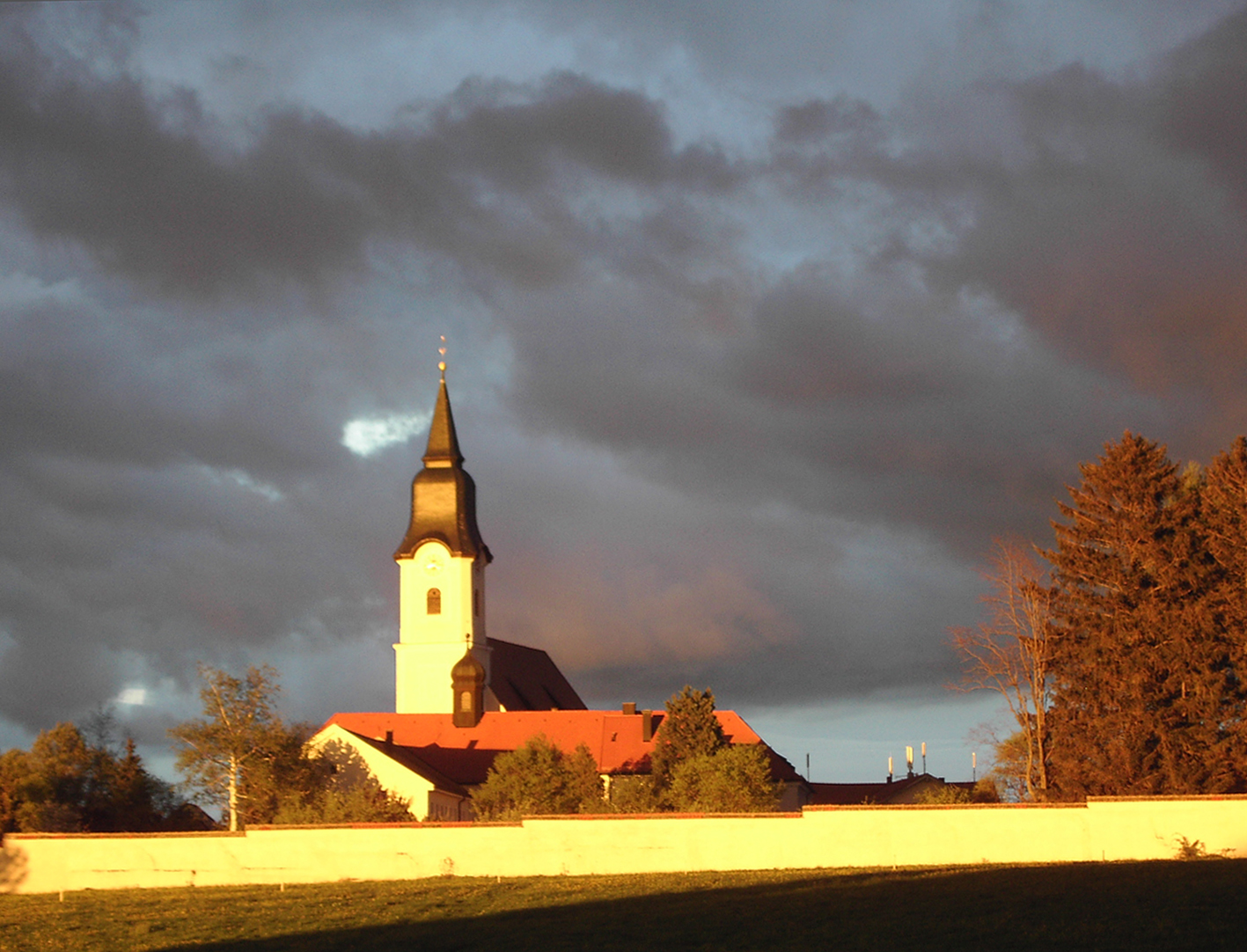 monastry Aufkirchen with St. Maria church, monastery and pilgrimage church in Upper Bavaria, Germany. View from west.